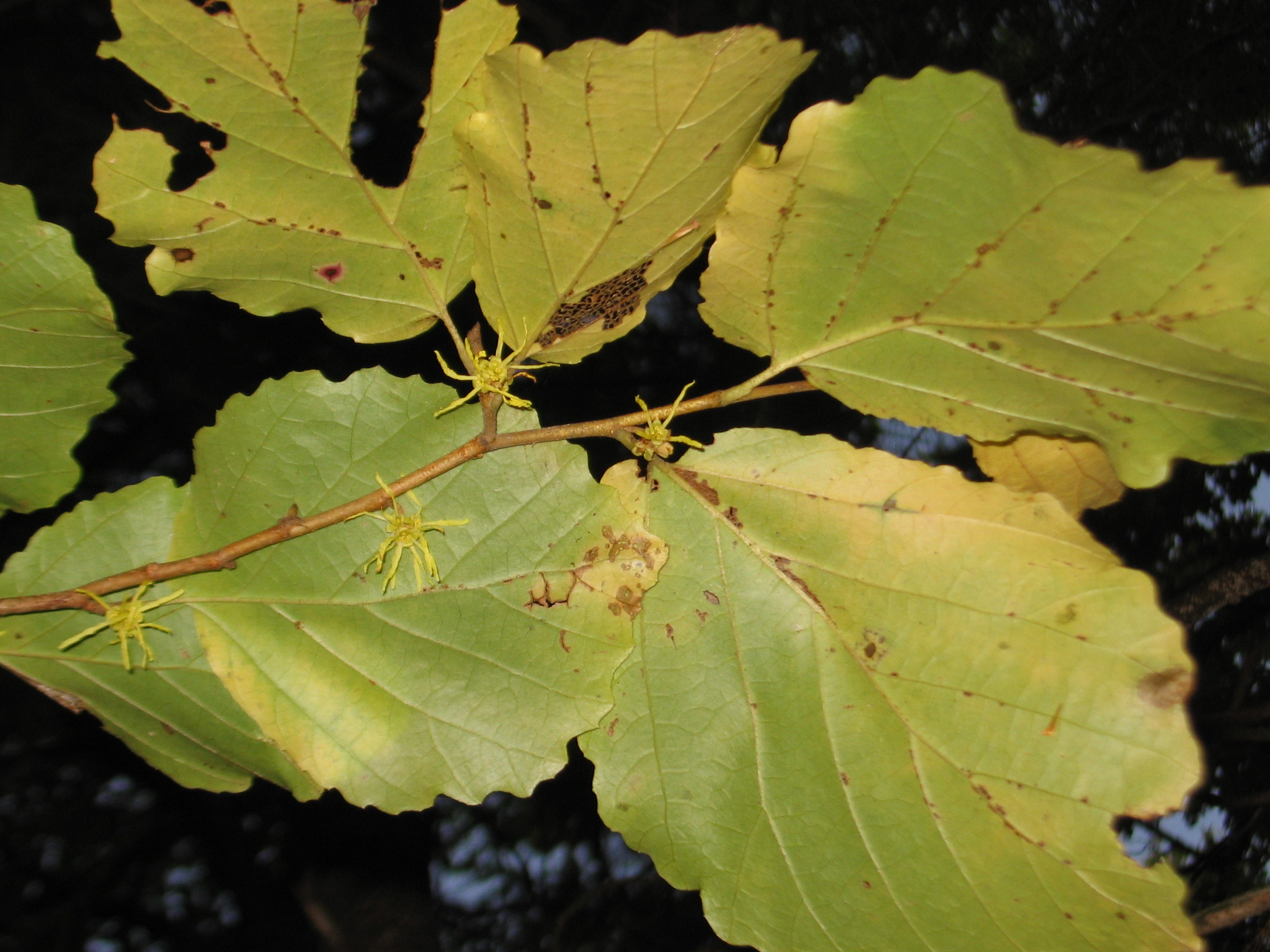 Hamamelis virginiana (witch hazel) closeup of flowers and autumn foliage.